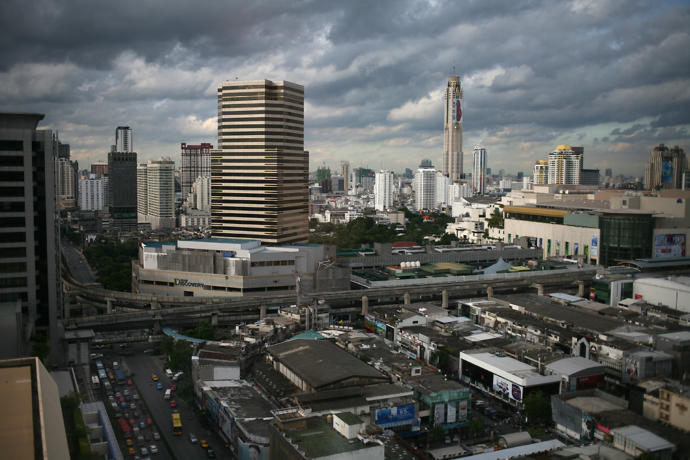 A view of the Siam Square area and Pathumwan. Picture was taken from Patumwan Princess Hotel